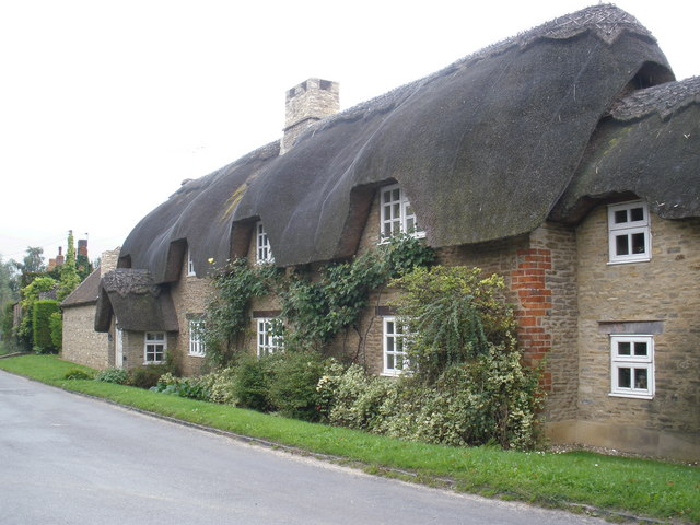 Squirrel Cottage, Hinton Road, Longworth, Oxfordshire (formerly Berkshire), seen from the northwest